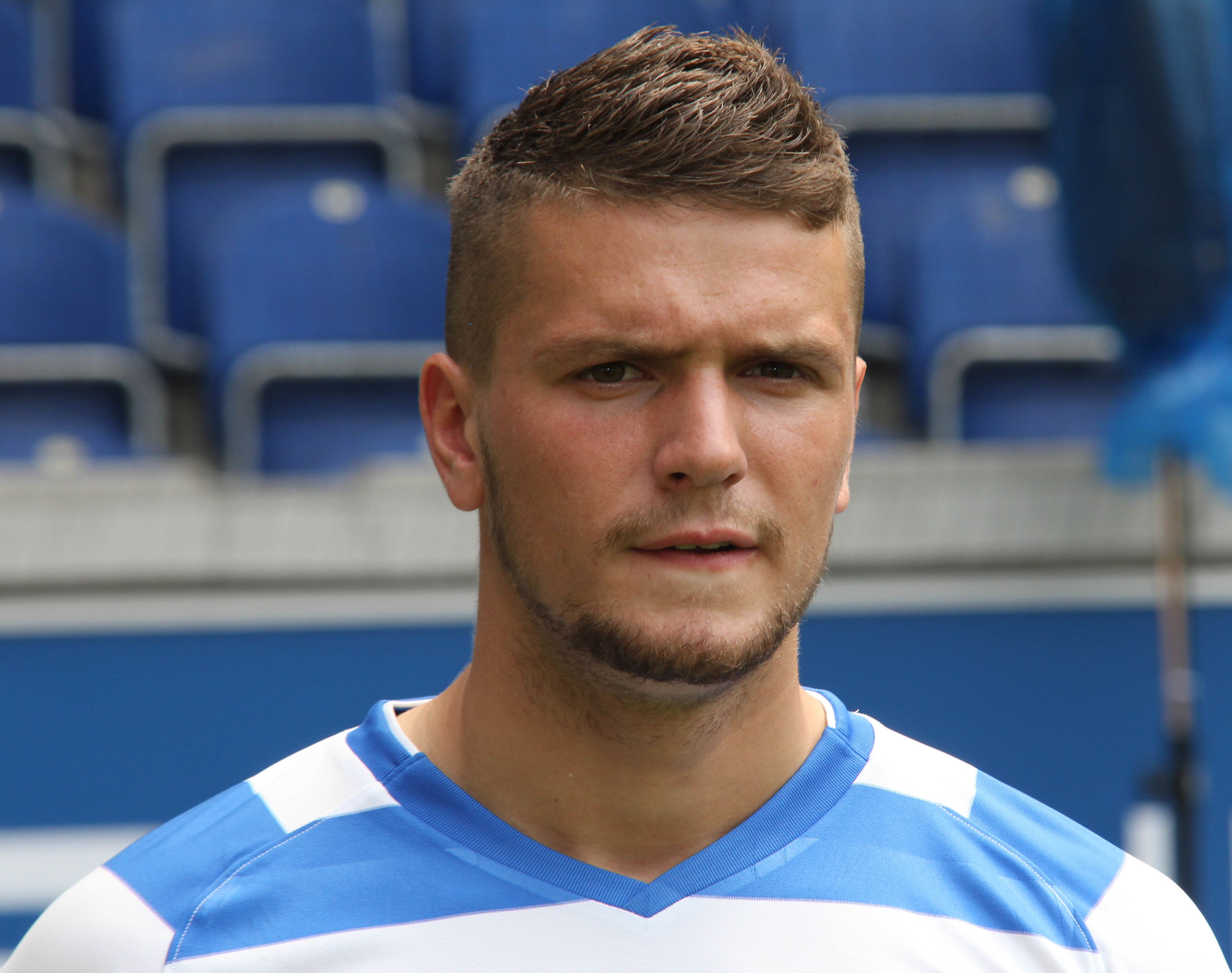 Norwegian footballer Flamur Kastrati, MSV Duisburg